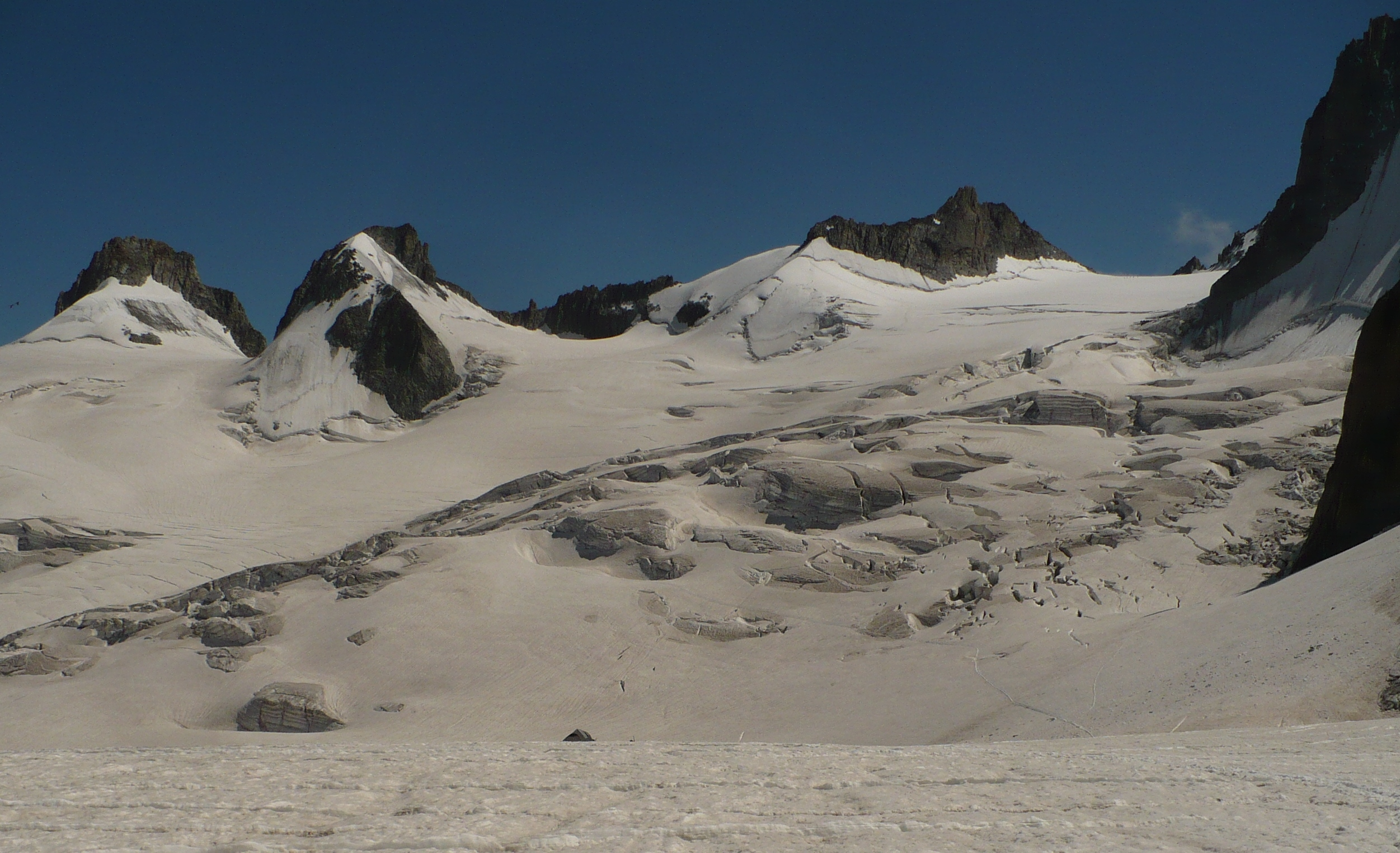 Aiguille de Toula (left), Aiguille d'Entrèves (center) and Tour Ronde (righit) from glacier of Gigante - Mont Blanc massif - Graian Alps